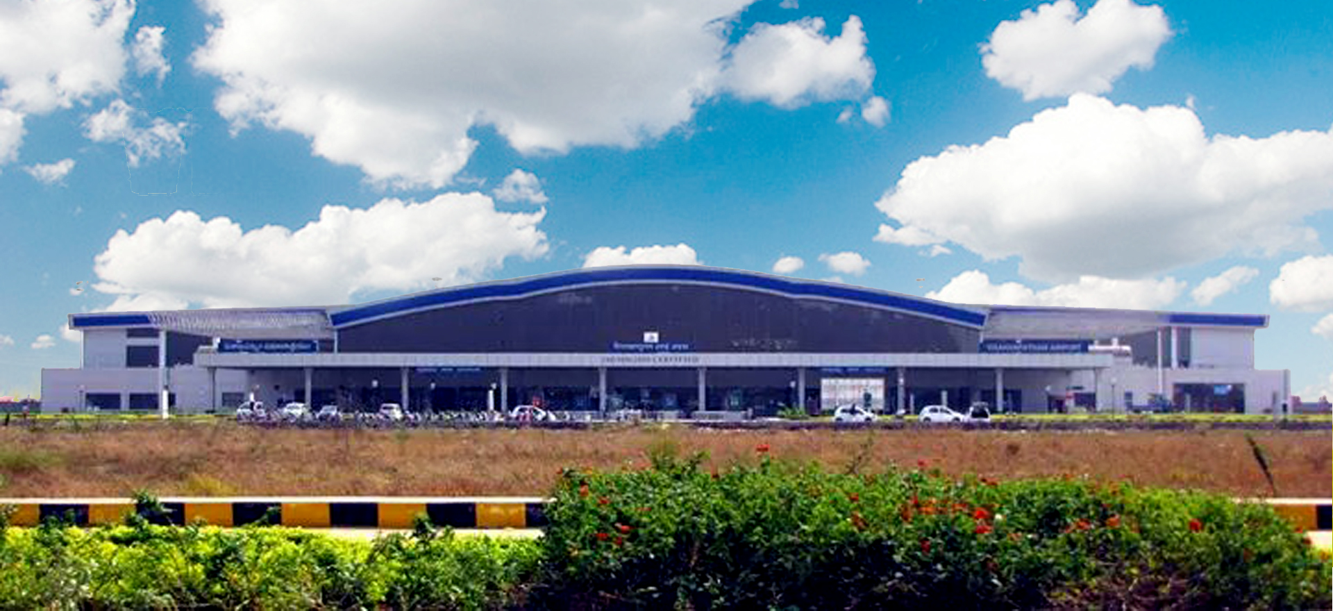 full front view of Visakhapatnam Airport